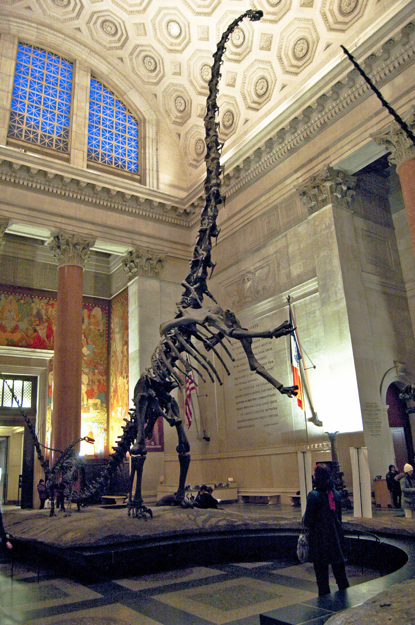 The official postcard (of the American Museum of Natural History) says this is a Barosaurus, and that "this unique freestanding mount is the only Barosaurus on view in the world". This was true until the installation of another Barosaurus specimen at the Royal Ontario Museum. The adult specimen pictured is AMNH 6341, classified as Barosaurus lentus. The juvenile specimen (AMNH 7530), originally classified as a juvenile Barosaurus, has since been reclassified as a specimen of Kaatedocus siberi.